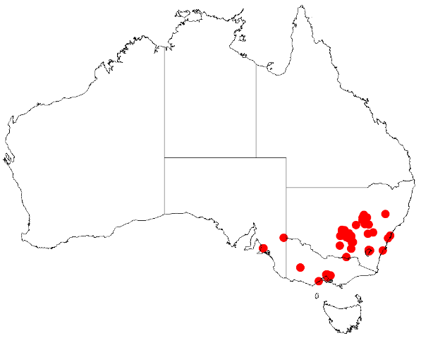 Acacia cardiophylla Occurrence data from Australasia Virtual Herbarium downloaded from on 8 December 2018